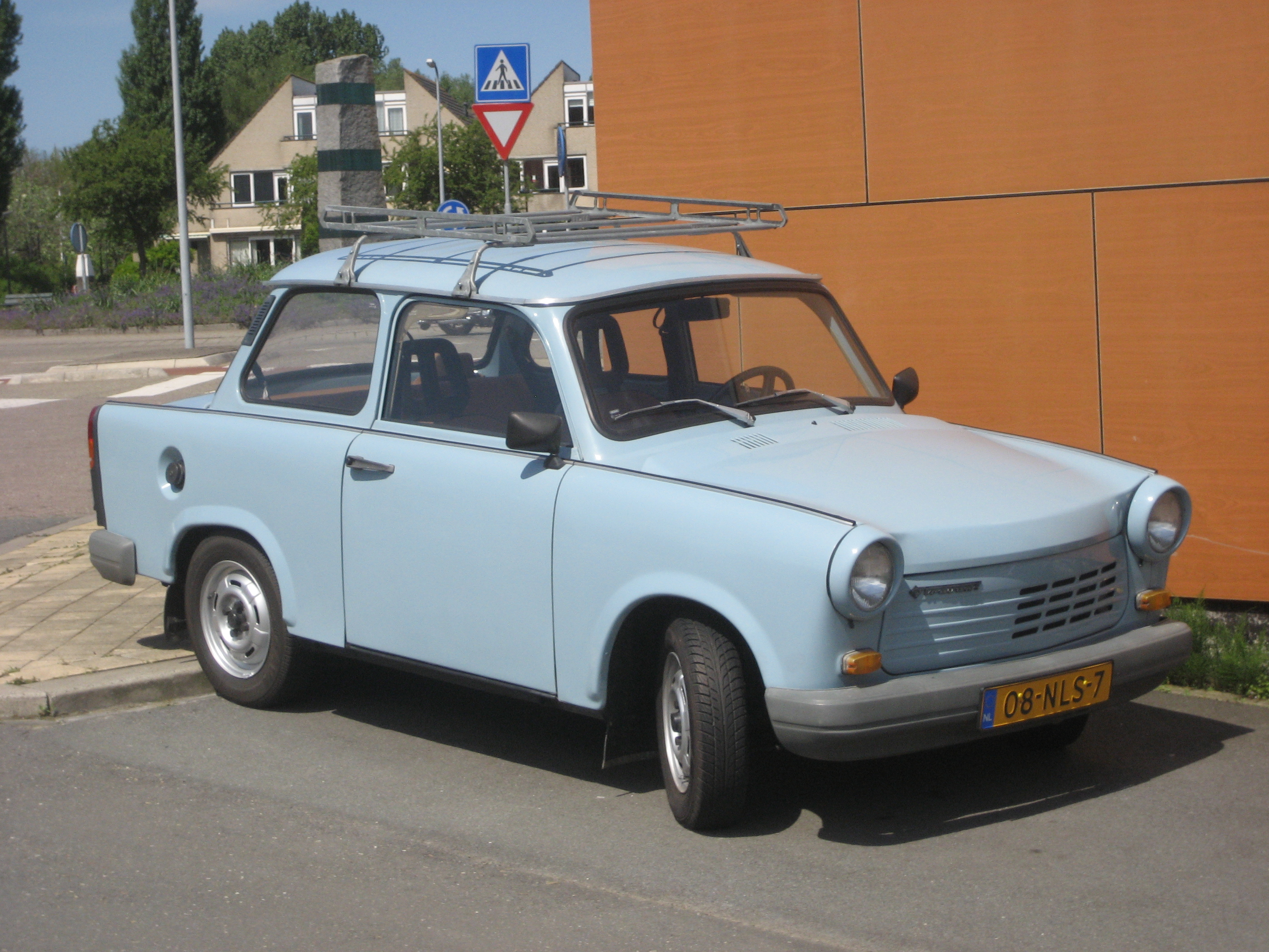 Trabant. Photograph taken in Leidschendam, The Netherlands (2014)